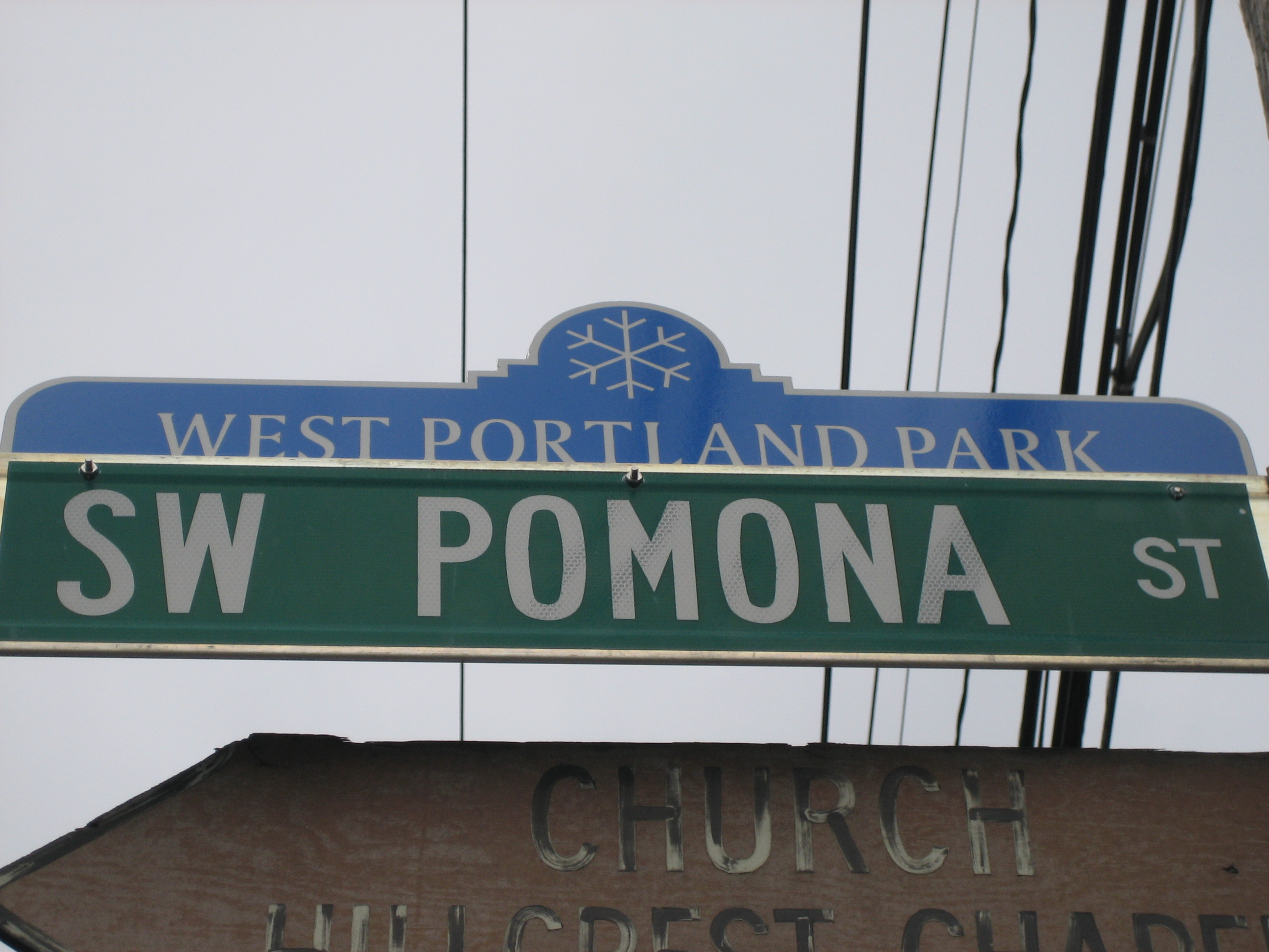 West Portland Park neighborhood street sign topper, Portland, Oregon